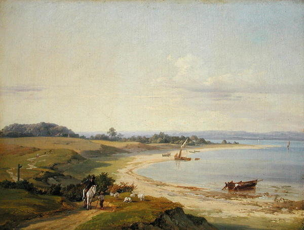 Coastal Landscape, Hermann Wilhelm Soltau, oil on paper laid down on board